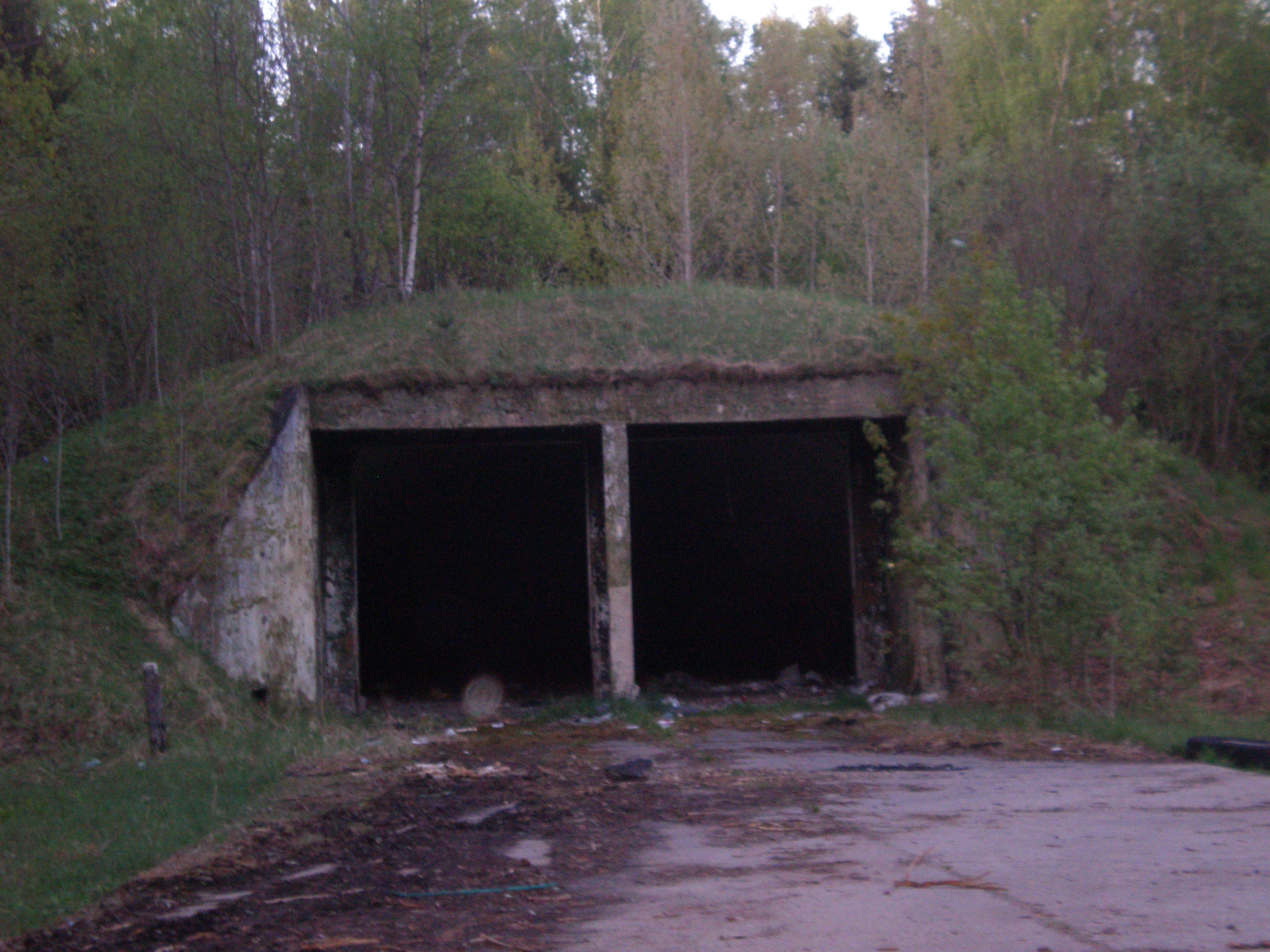 Gulbiniškiai' Missile Base